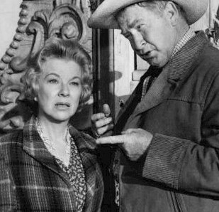 A cropped photo of Glenda Farrell and Chill Wills from the television series Frontier Circus.